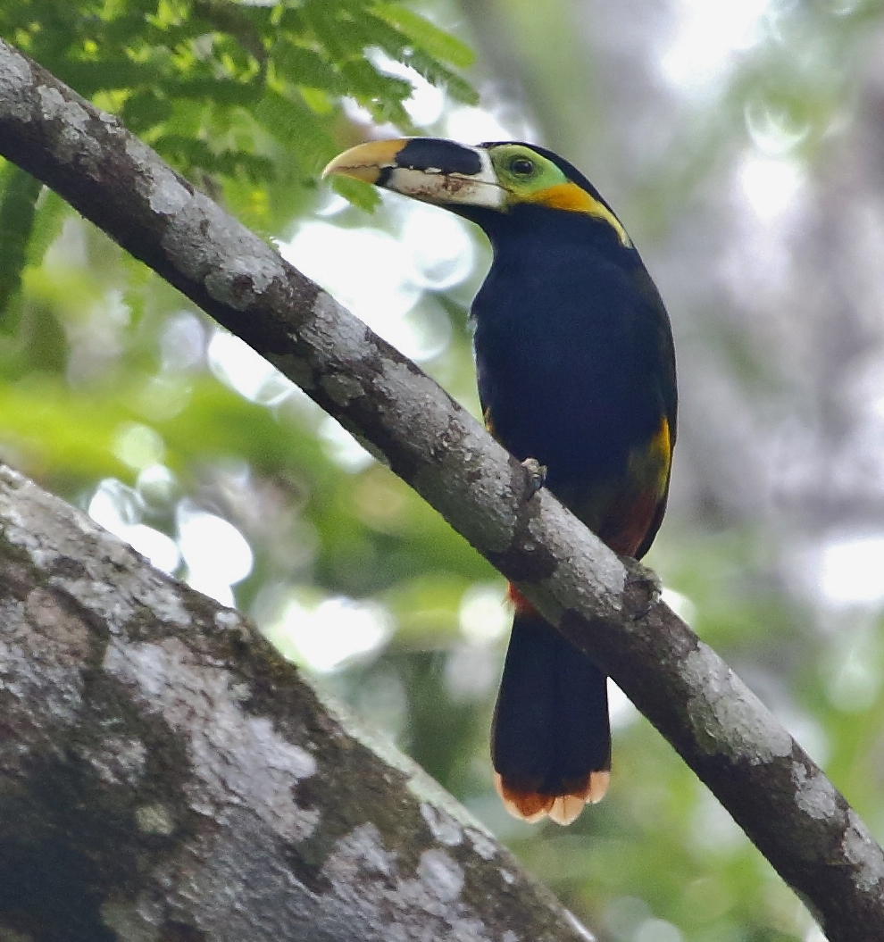 Gould's toucanet (male) at Carajás National Forest, Pará, Brazil